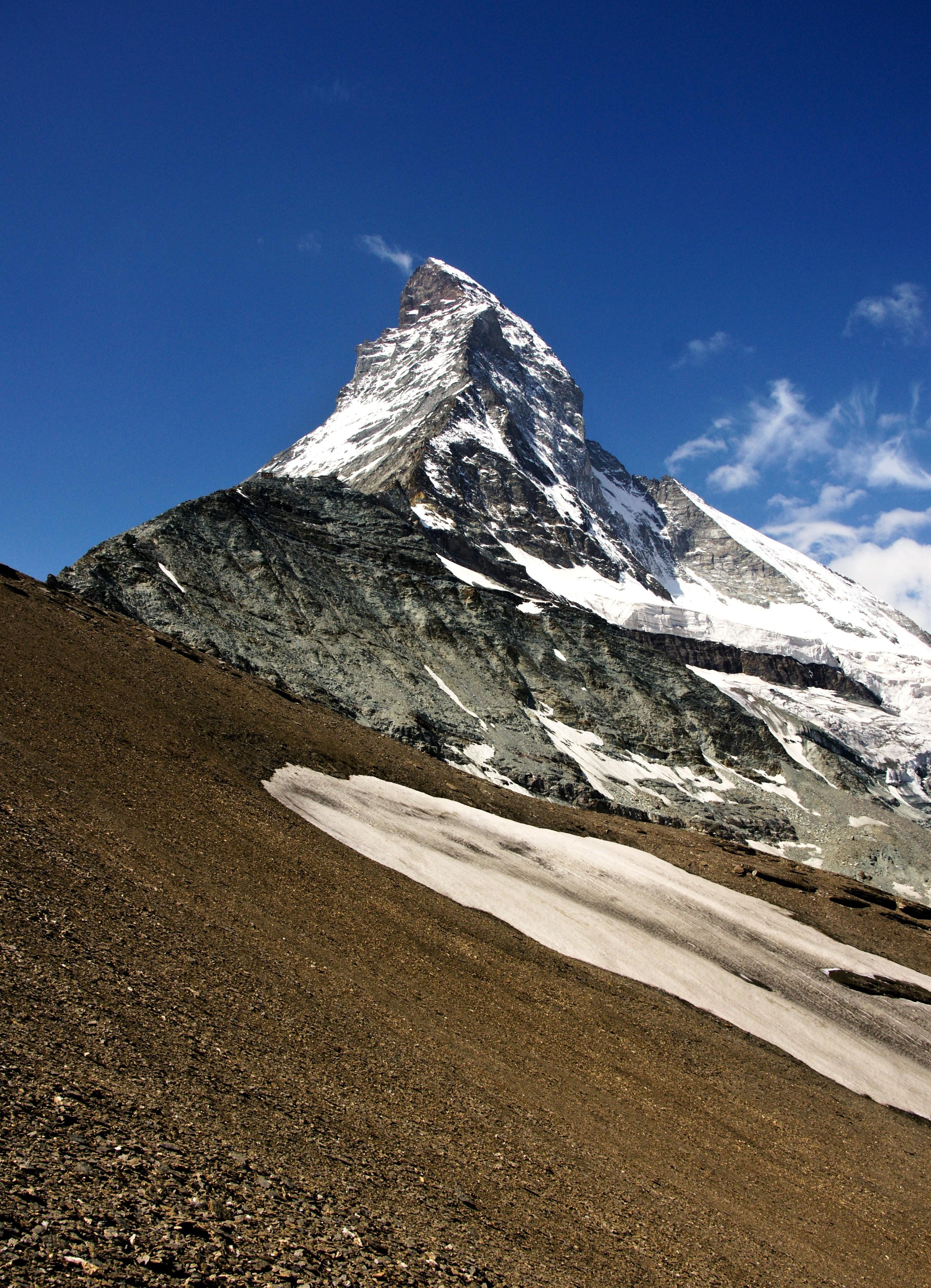 Matterhorn, from the trail to the Hörnlihütte (3000 m)